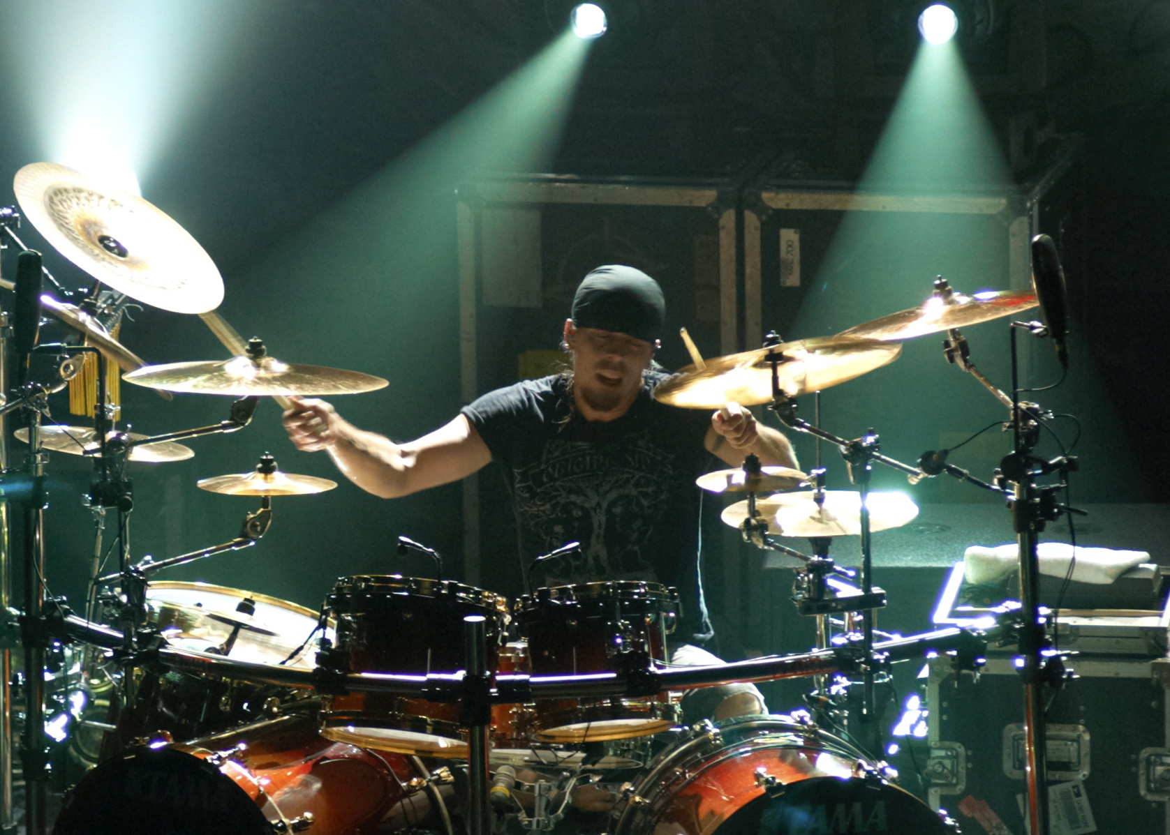 Jukka Nevalainen playing drums at a Nightwish concert at The Palais in Melbourne, Australia, in January 2008.